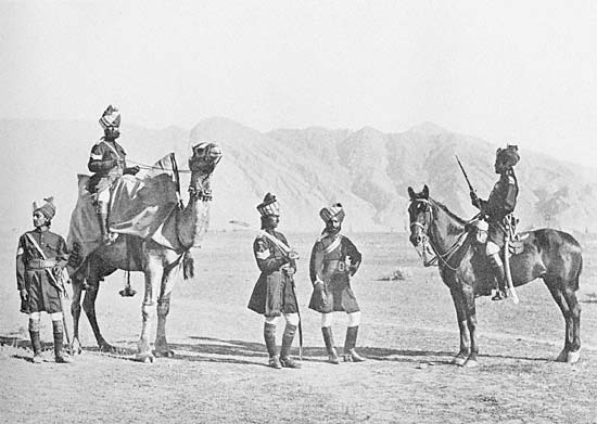 5th Bombay Cavalry (Sind Horse)